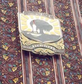 Emblem of the Andalas University on its gate’s wall